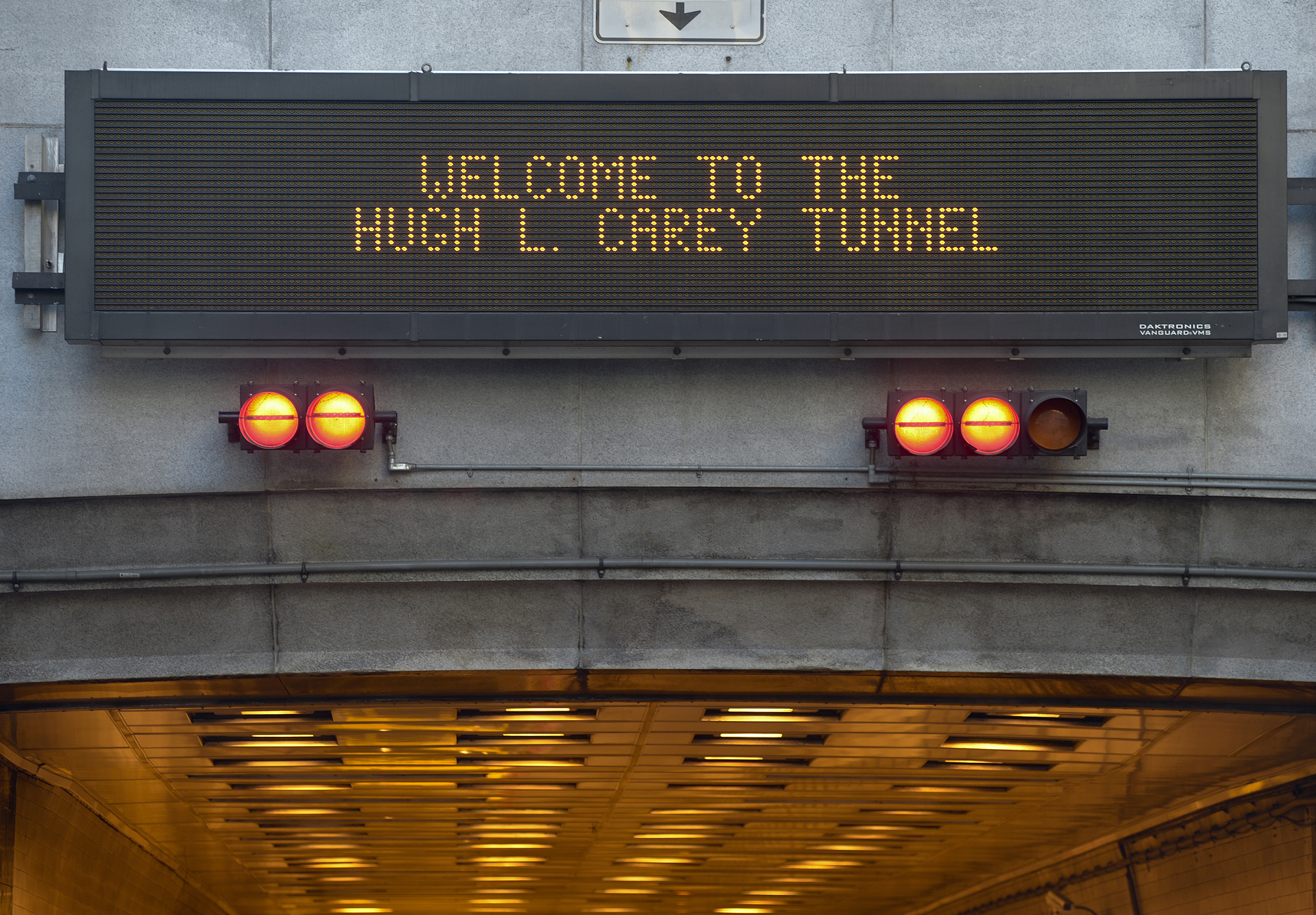 On Monday, October 22, 2012, the former Brooklyn-Battery Tunnel was renamed the Hugh L. Carey Tunnel in honor of New York State's 51st Governor. The overall ceremony was attended by New York State Lieutenant Governor Robert J. Duffy, NYC Mayor Michael R. Bloomberg, former Governor Mario Cuomo, former Governor and MTA Board member David A. Paterson, MTA Chairman and CEO Joseph J. Lhota, members of the Carey family, and staff of MTA Bridges and Tunnels. Photo: Metropolitan Transportation Authority / Patrick Cashin.